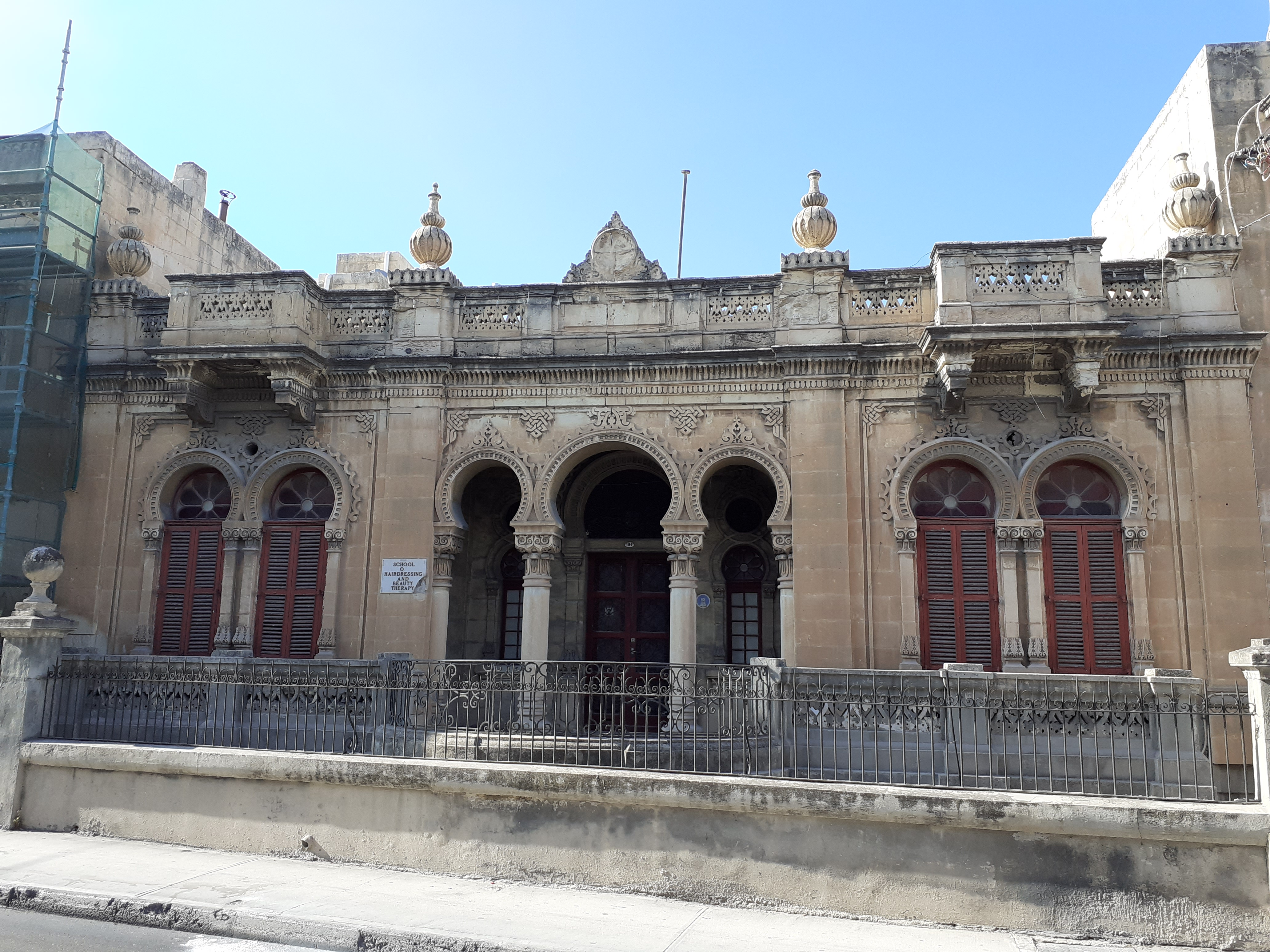 Villa Alhambra, Sliema by Emanuele Luigi Galizia